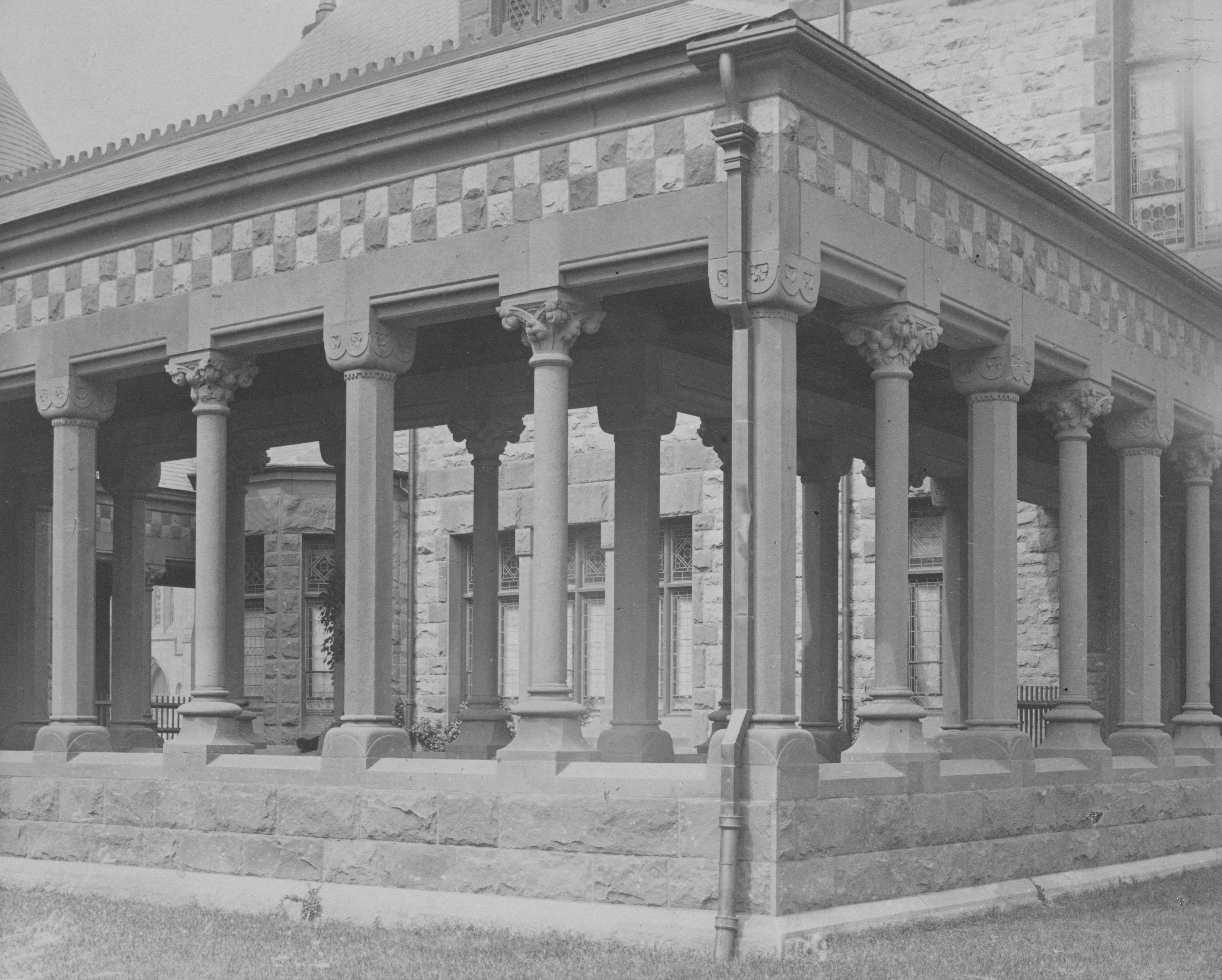 Collection: A. D. White Architectural Photographs, Cornell University Library Accession Number: 15/5/3090.00239 Title: Trinity Church, Boston Architect: Henry Hobson Richardson (American, 1838-1886) Building Date: 1872-1877 Photograph date: ca. 1877-ca. 1895 Location: North and Central America: United States; Massachusetts, Boston Materials: albumen print Style: Romanesque Revival Provenance: Gift of Andrew Dickson White Persistent URI: There are no known U.S. copyright restrictions on this image. The digital file is owned by the Cornell University Library which is making it freely available with the request that, when possible, the Library be credited as its source.